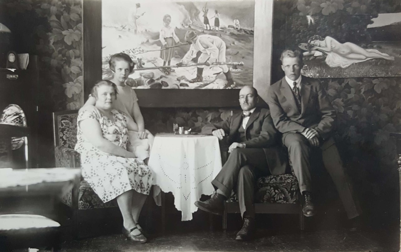 Family photo